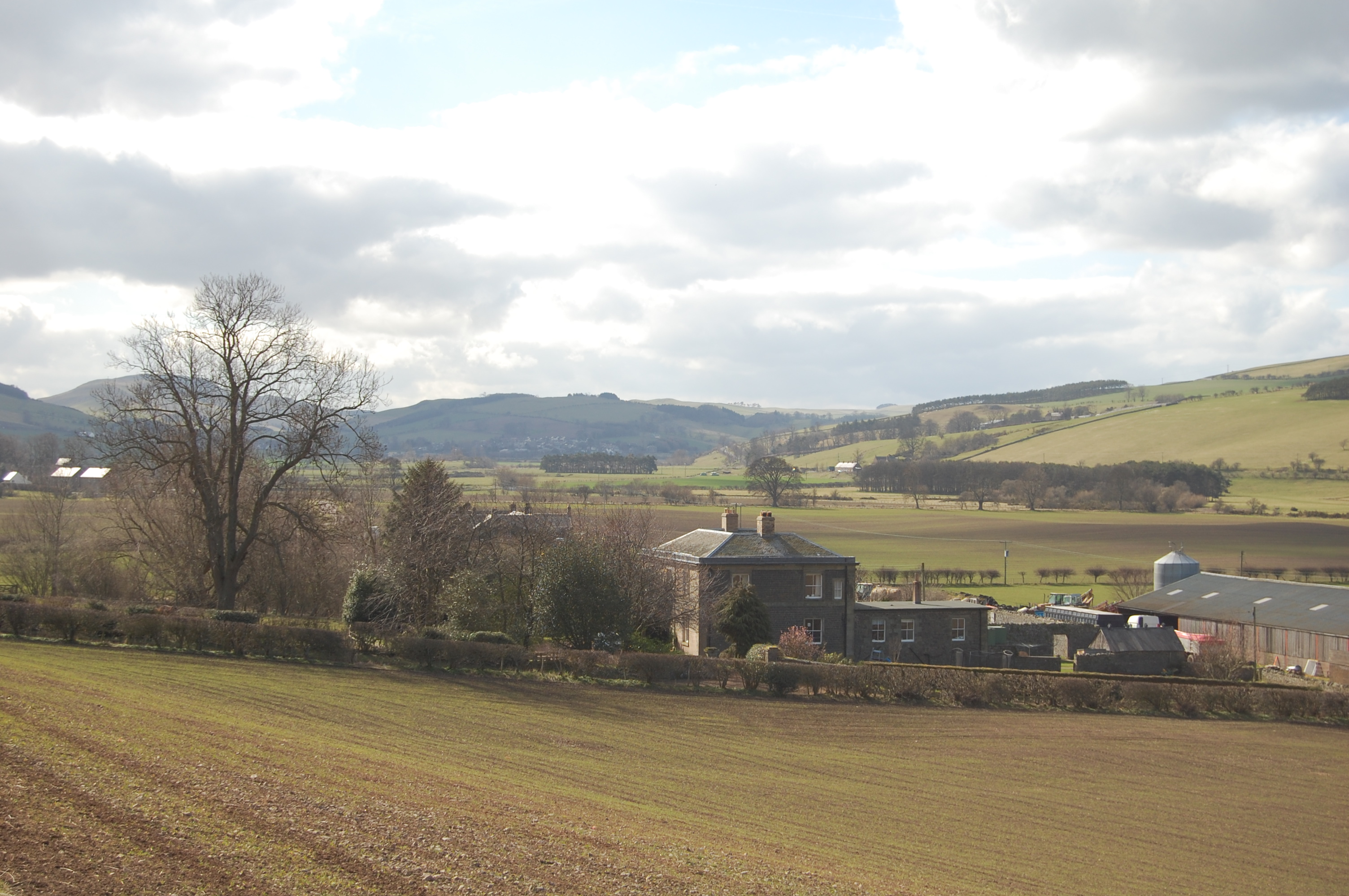 Kilham : Shotton Farm, Data from Geograph: Description: The large farm at Shotton marks the site of what must have once been a large medieval hamlet. A document of 1541 records that it had been laying in a state of waste for more than thirty years. A small area of earthworks are visible.... more ICBM: 55.566386176186, -2.2512966414738 Location: (about 0 km from) near to Shotton, Northumberland, Great Britain.